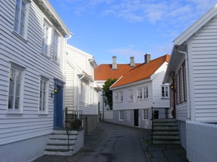 The photo was taken by me two years ago in my own town.I own all rights of the photo.